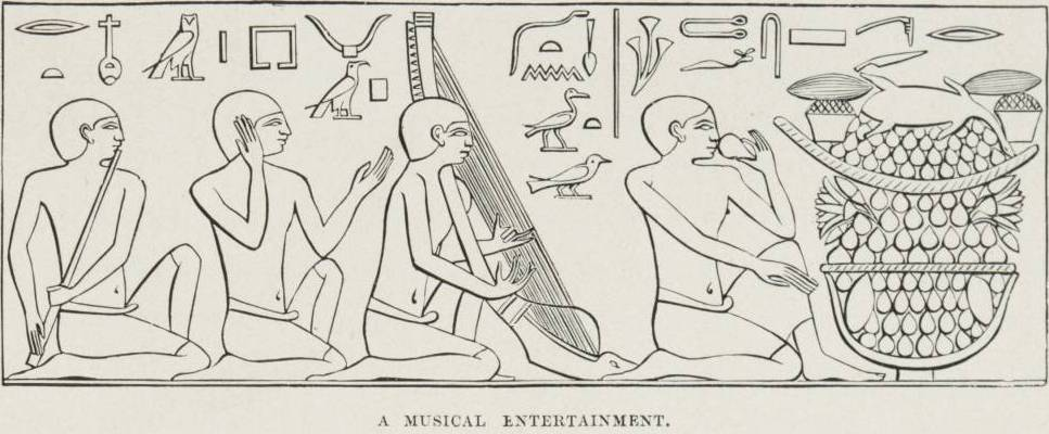 Men playing instruments, drawn in the ancient Egyptian style.